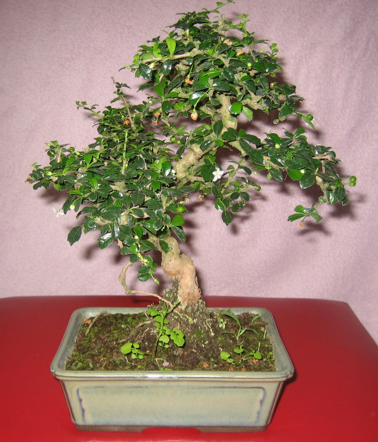 Erethia theezans (bonsaï) also known as Carmona